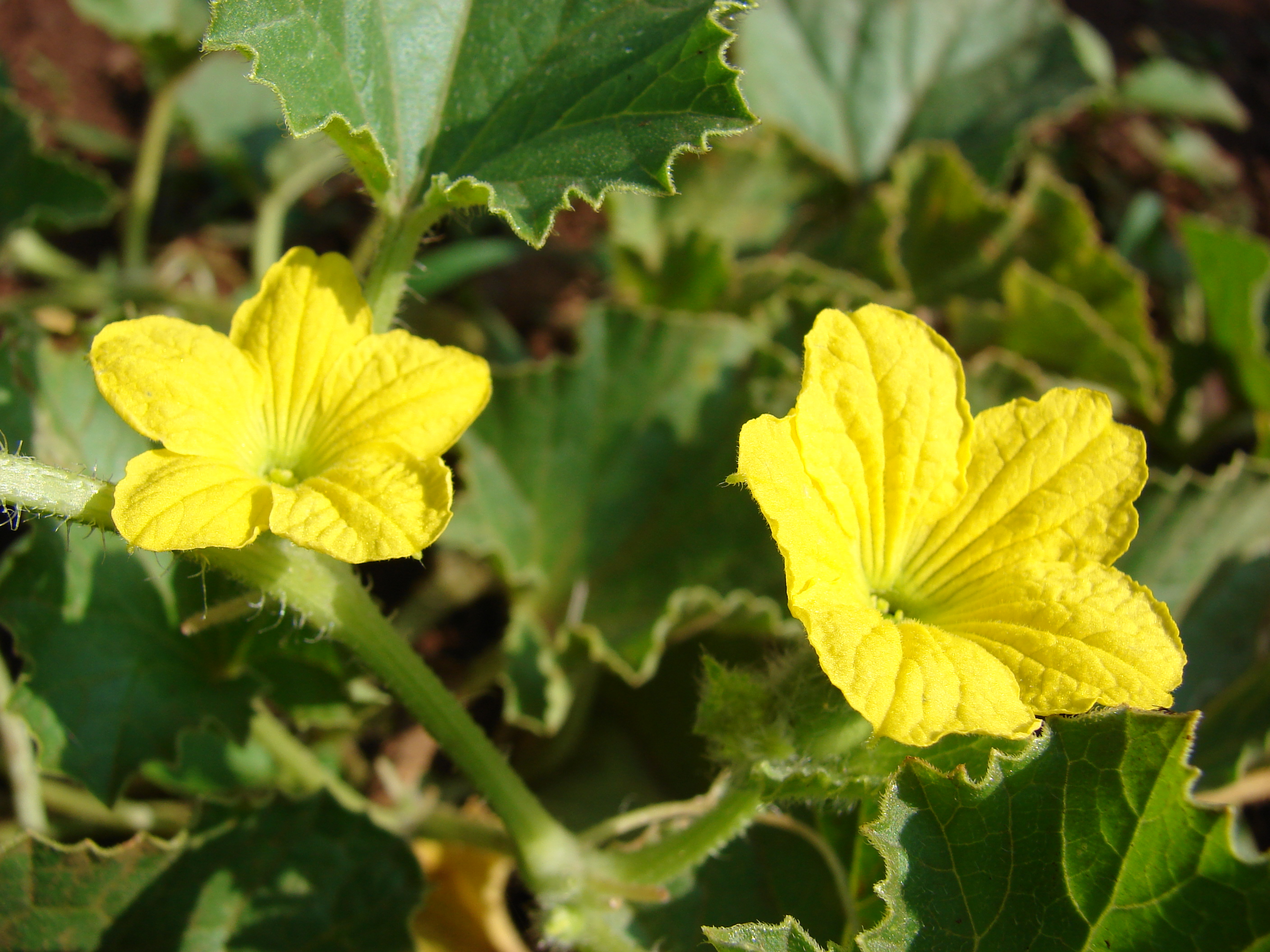 Cucumis melo (cantaloupe flowers). Location: Maui, Makawao